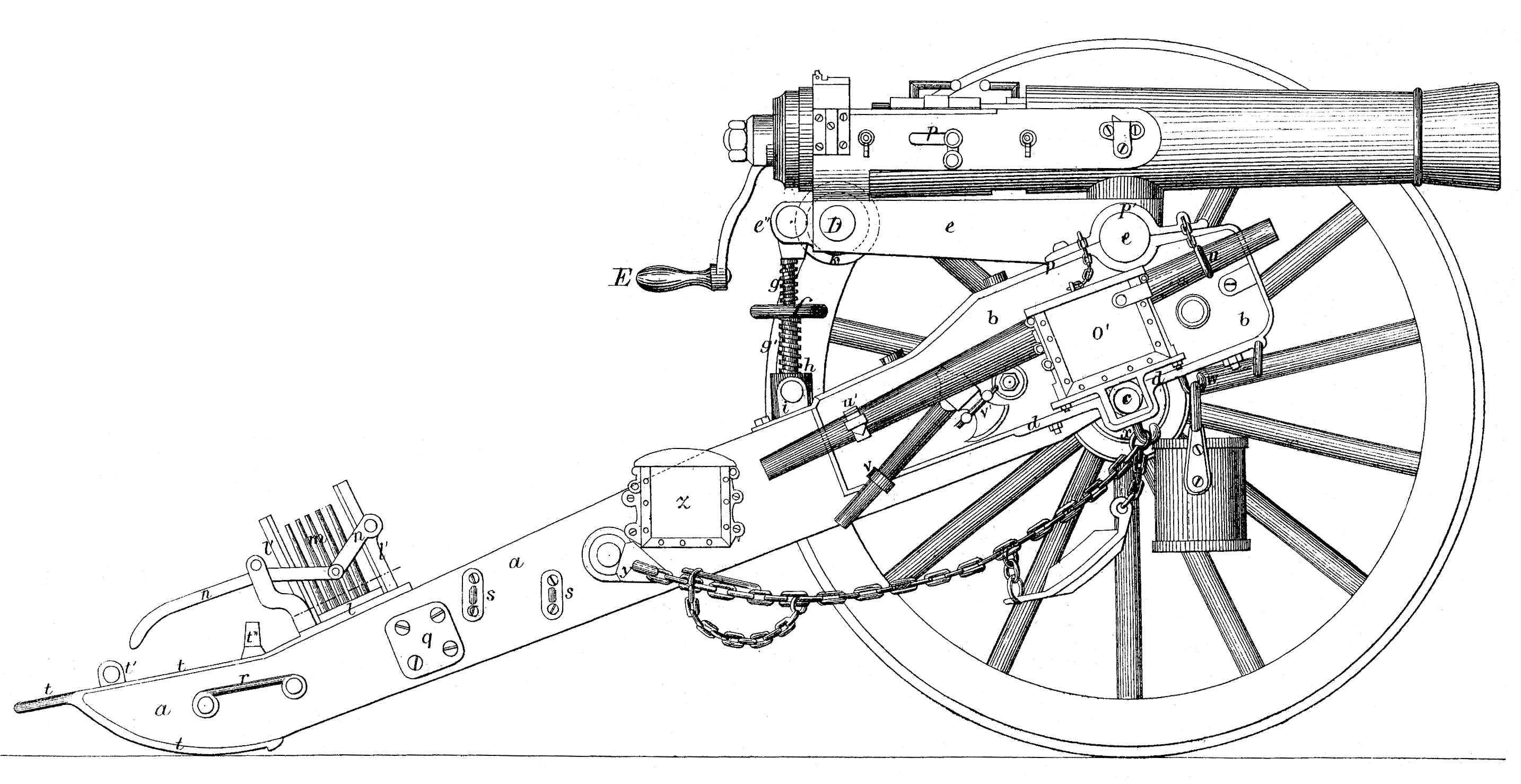 Side plan diagram of Reffye mitrailleuse